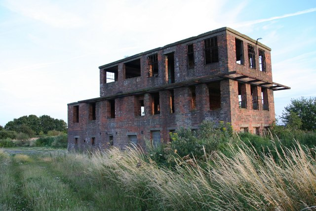 RAF Wigsley watchtower. The lower floor windows have been blocked up to deter vandals, but this important remnant of RAF Wigsley continues to deteriorate 136766